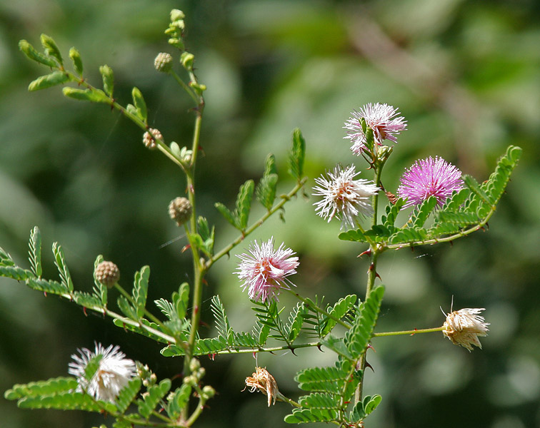 Gulabi babhul Mimosa hamanta in Hyderabad , India.